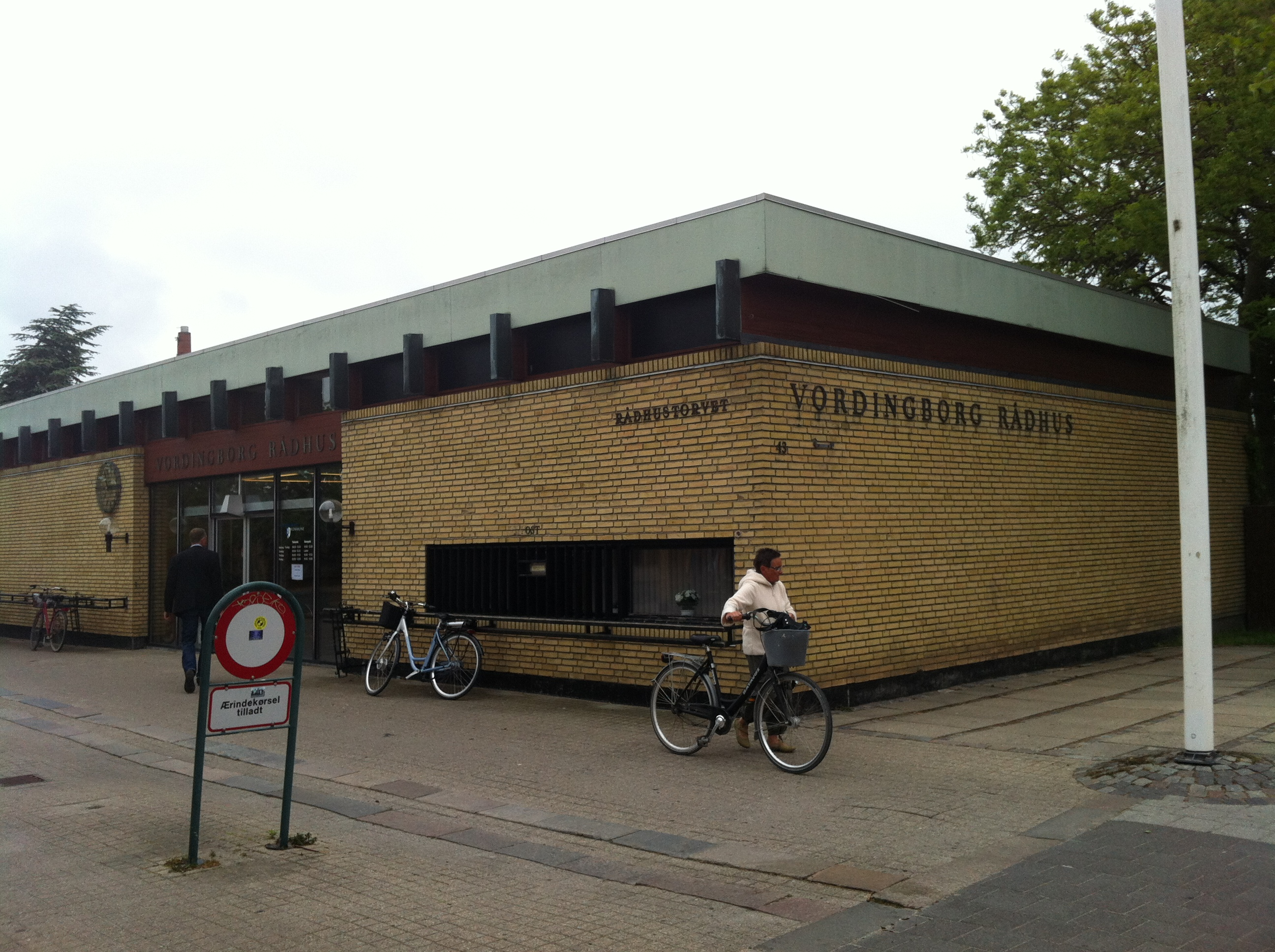 Vordingborg Town Hall